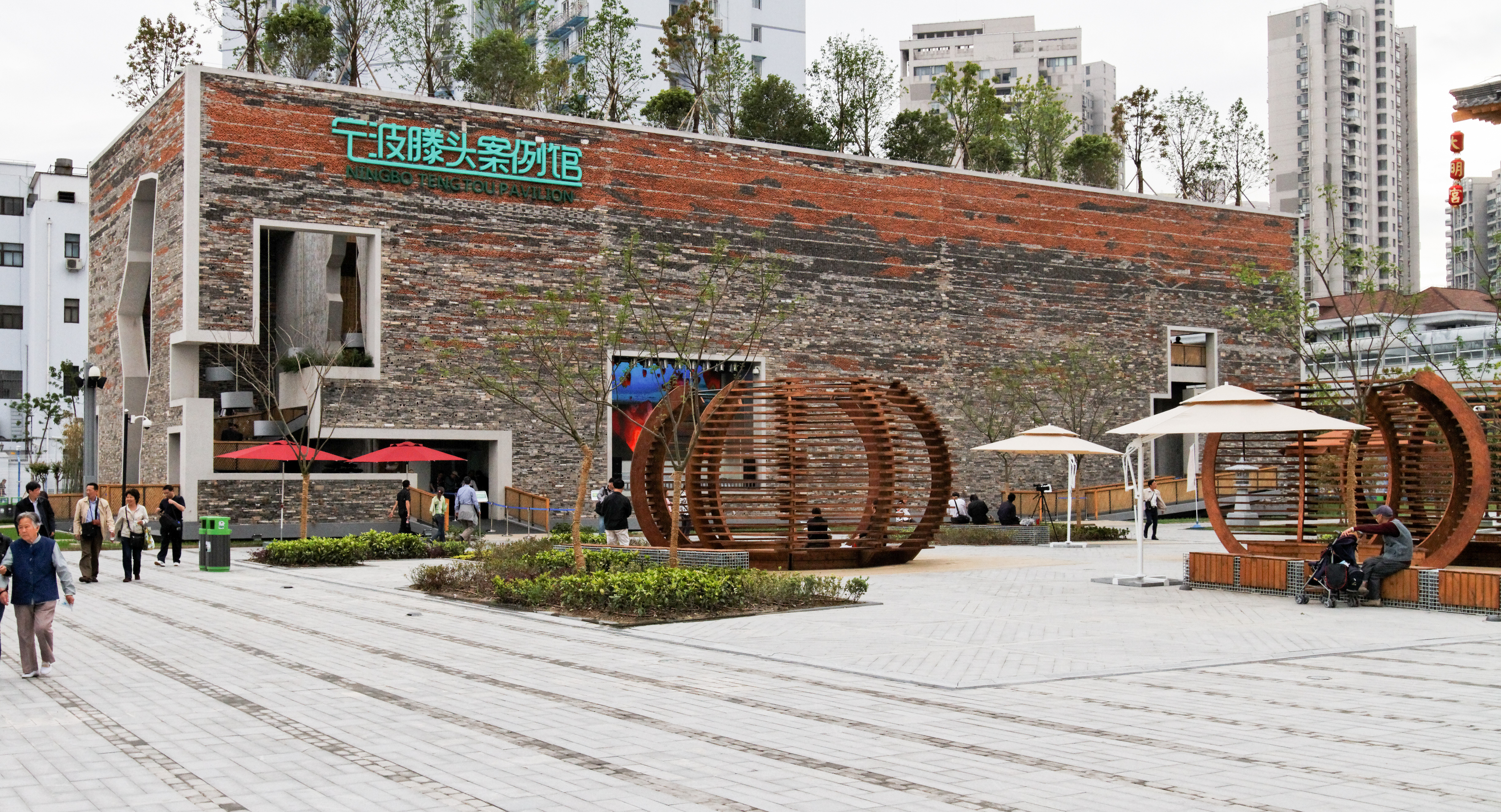 Ningbo Tengtou Case Pavilion, Urban Best Practices Area, Expo 2010